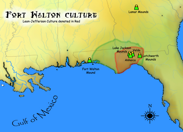 A map showing the geographic extent of the Fort Walton and Leon-Jefferson Cultures of pre and protohistoric northern Florida. The cultures were a regional variation of the South Appalachian Mississippian culture.